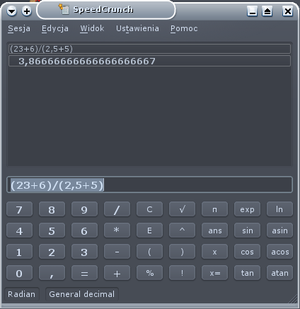 SpeedCrunch calculator